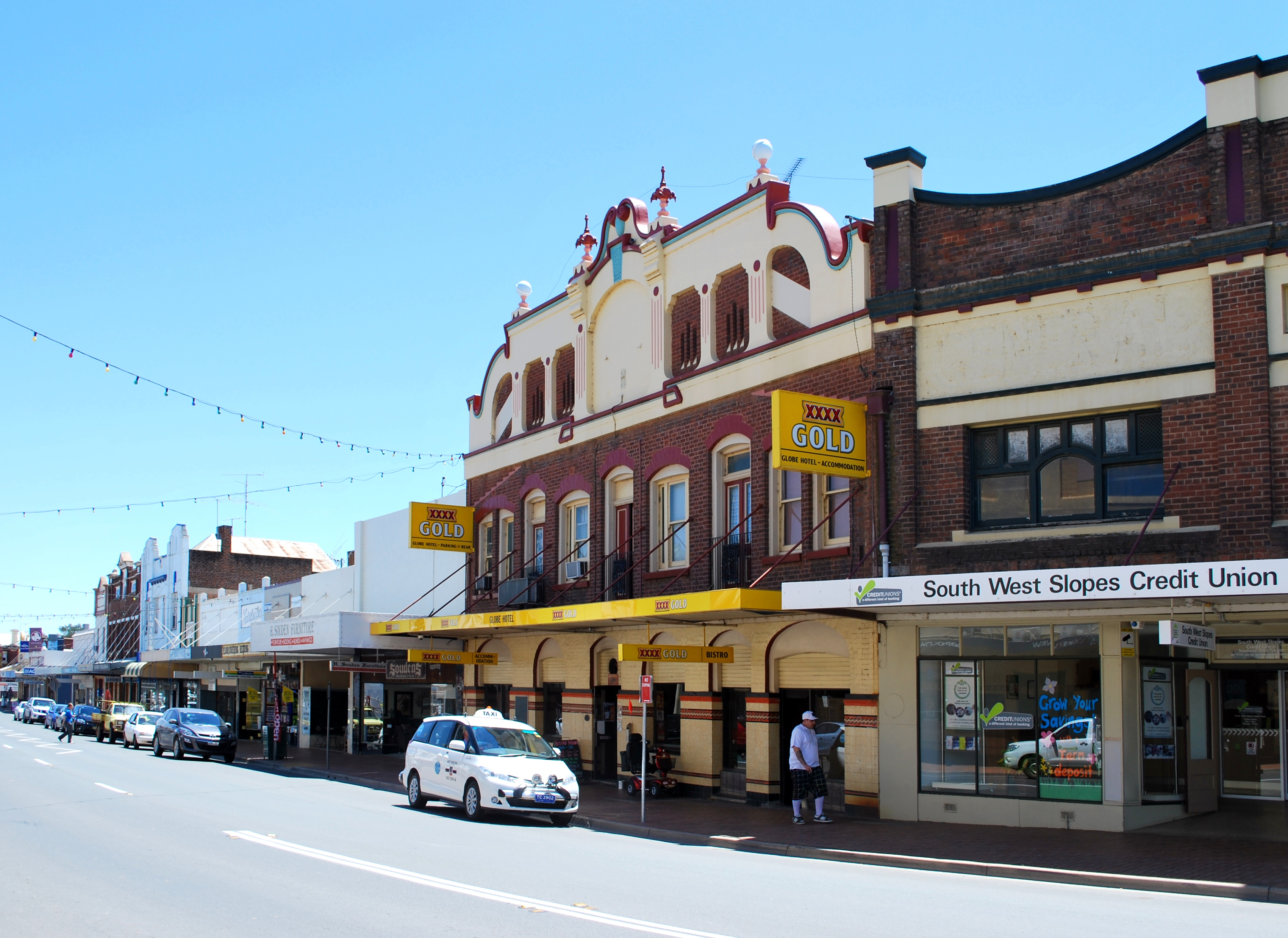 Globe Hotel in West Wyalong, New South Wales